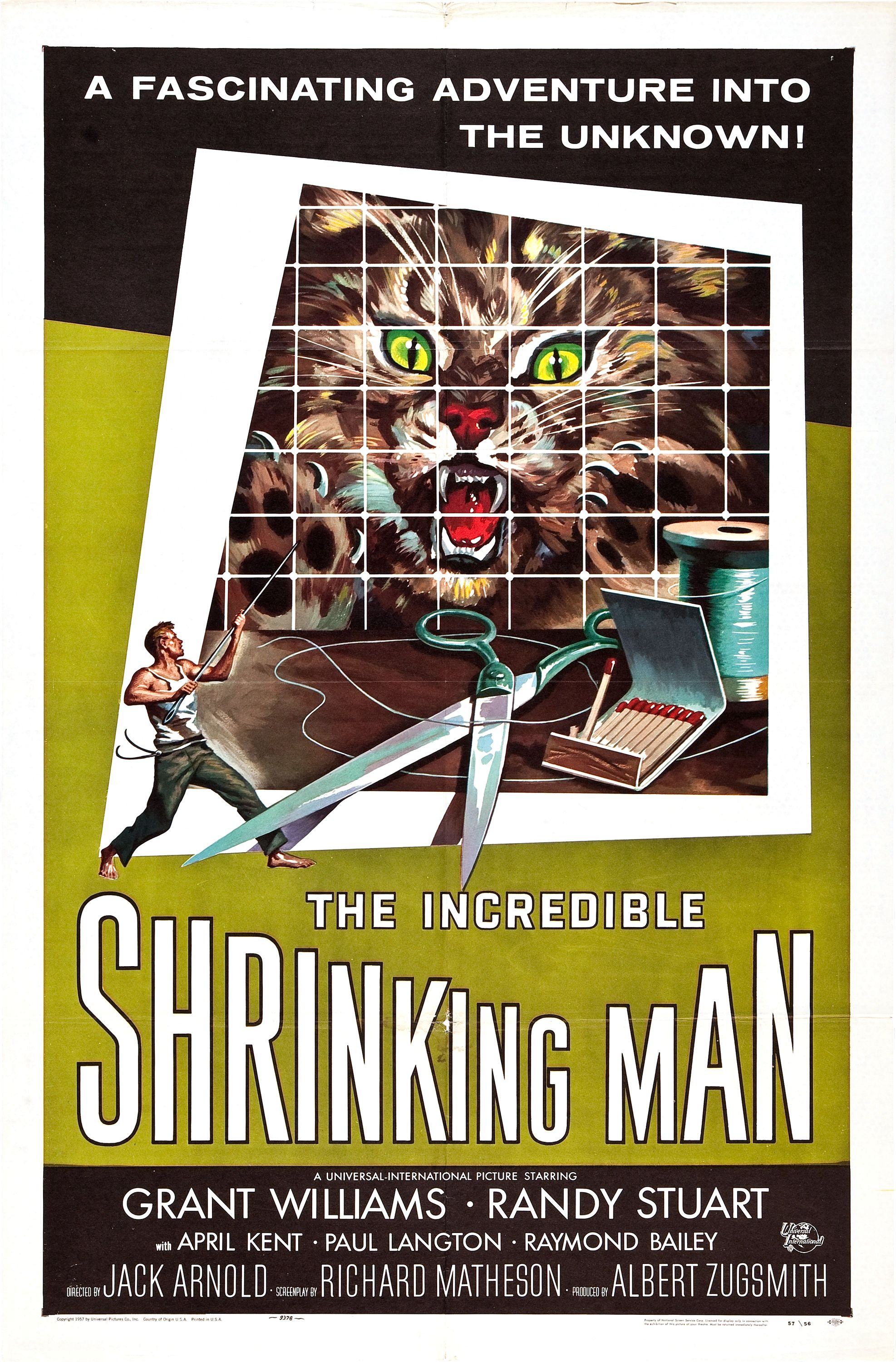 Advertising poster for The Incredible Shrinking Man (1957)